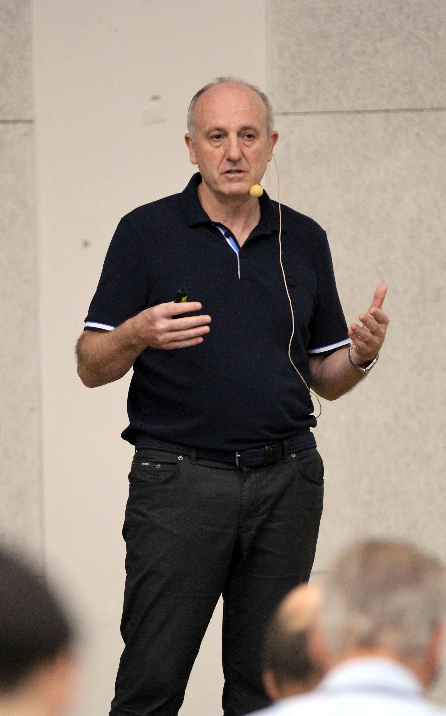 Daniel Loss speaking at the IBS Conference on Quantum Nanoscience in Ewha Womans University, South Korea.